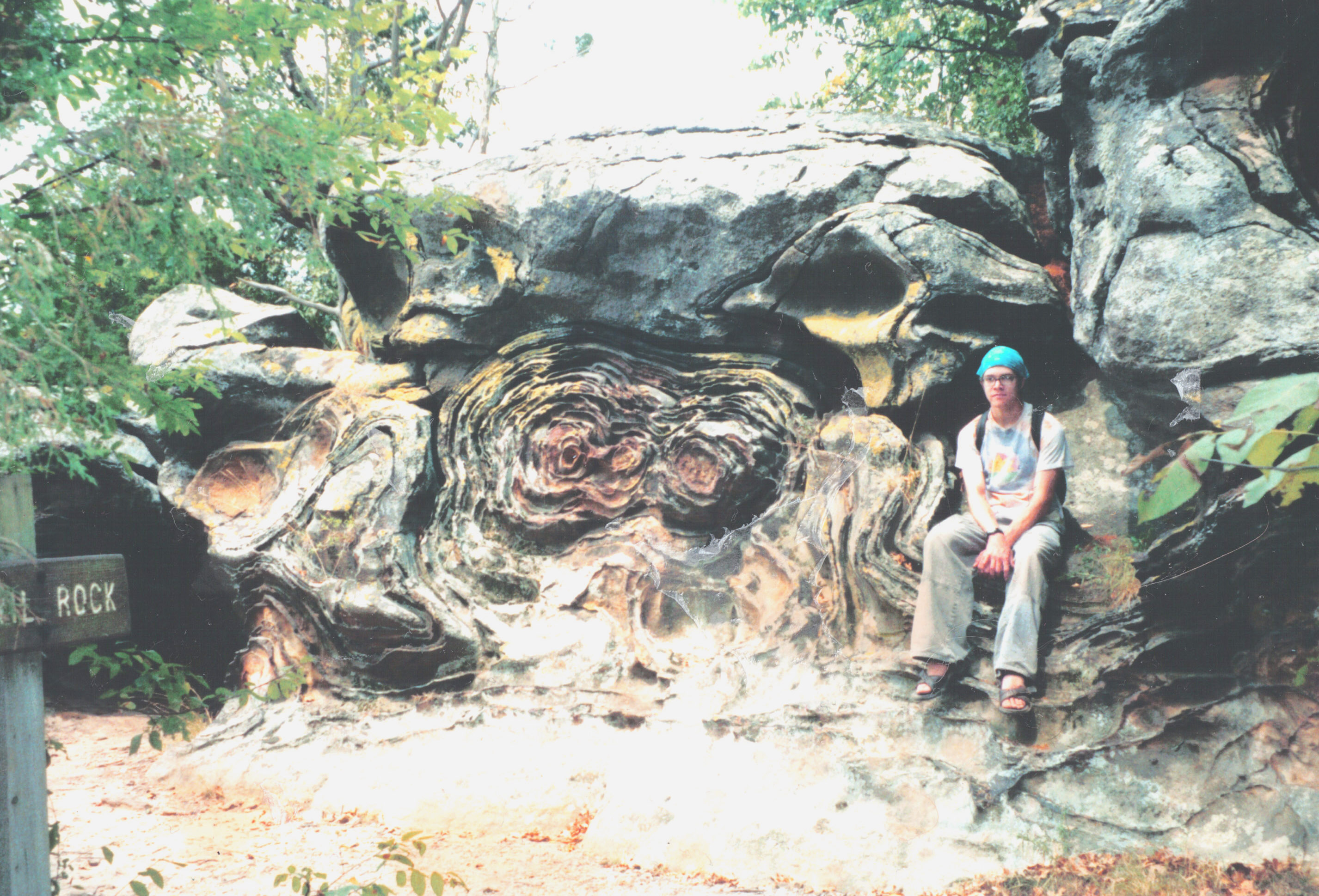 Excellent example of Liesegang banding in sandstone. Taken near Garden of the Gods in IL